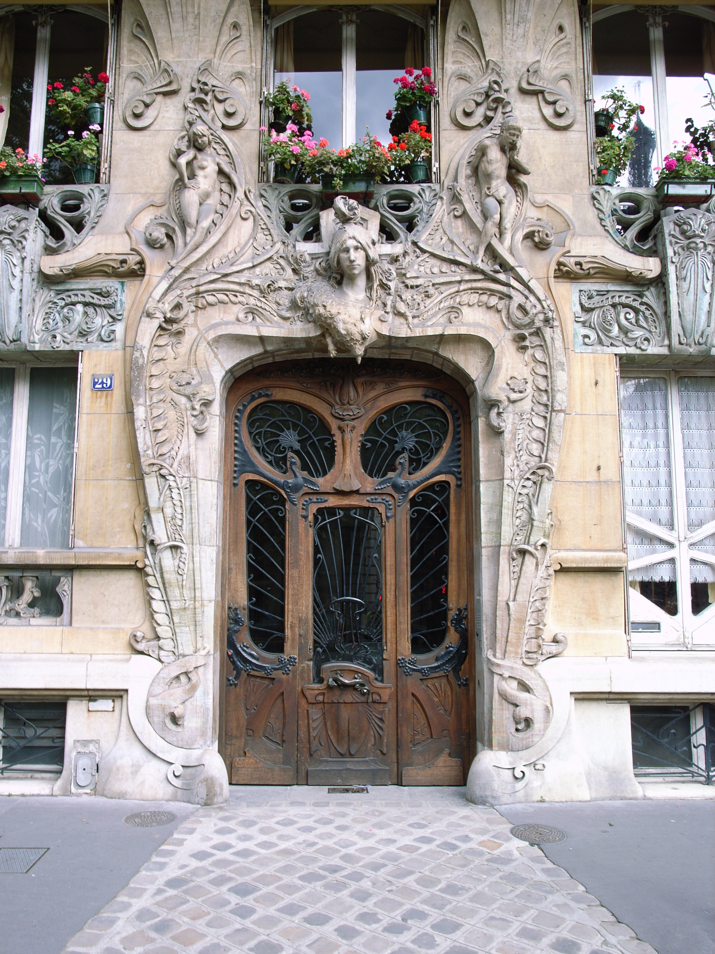 Entryway to No. 29 Avenue Rapp, Paris, France.